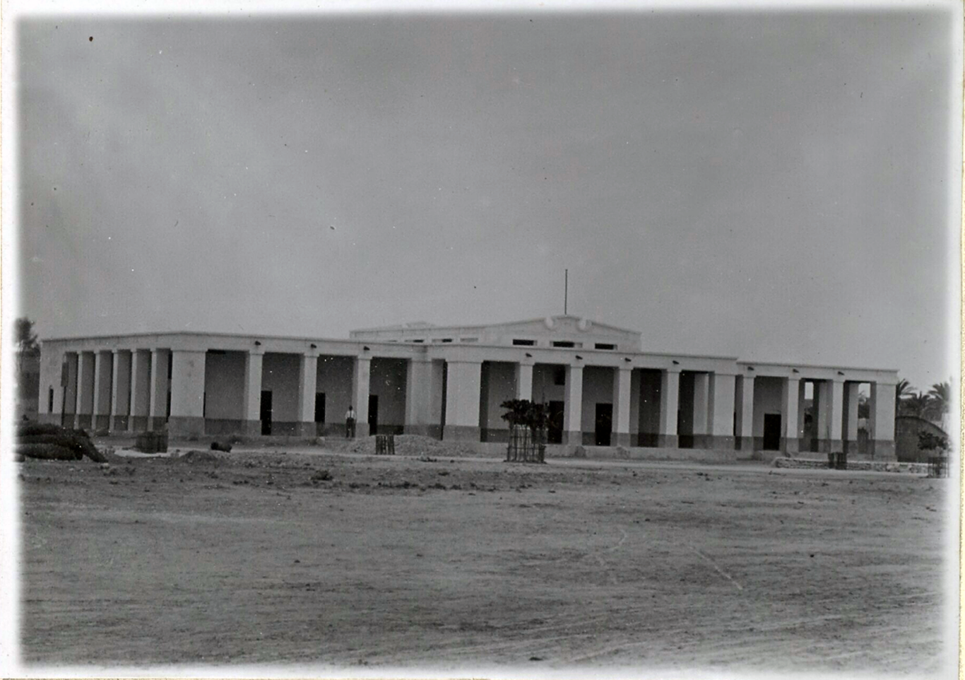 The Jaafaria school in Manama, Bahrain circa 1931.